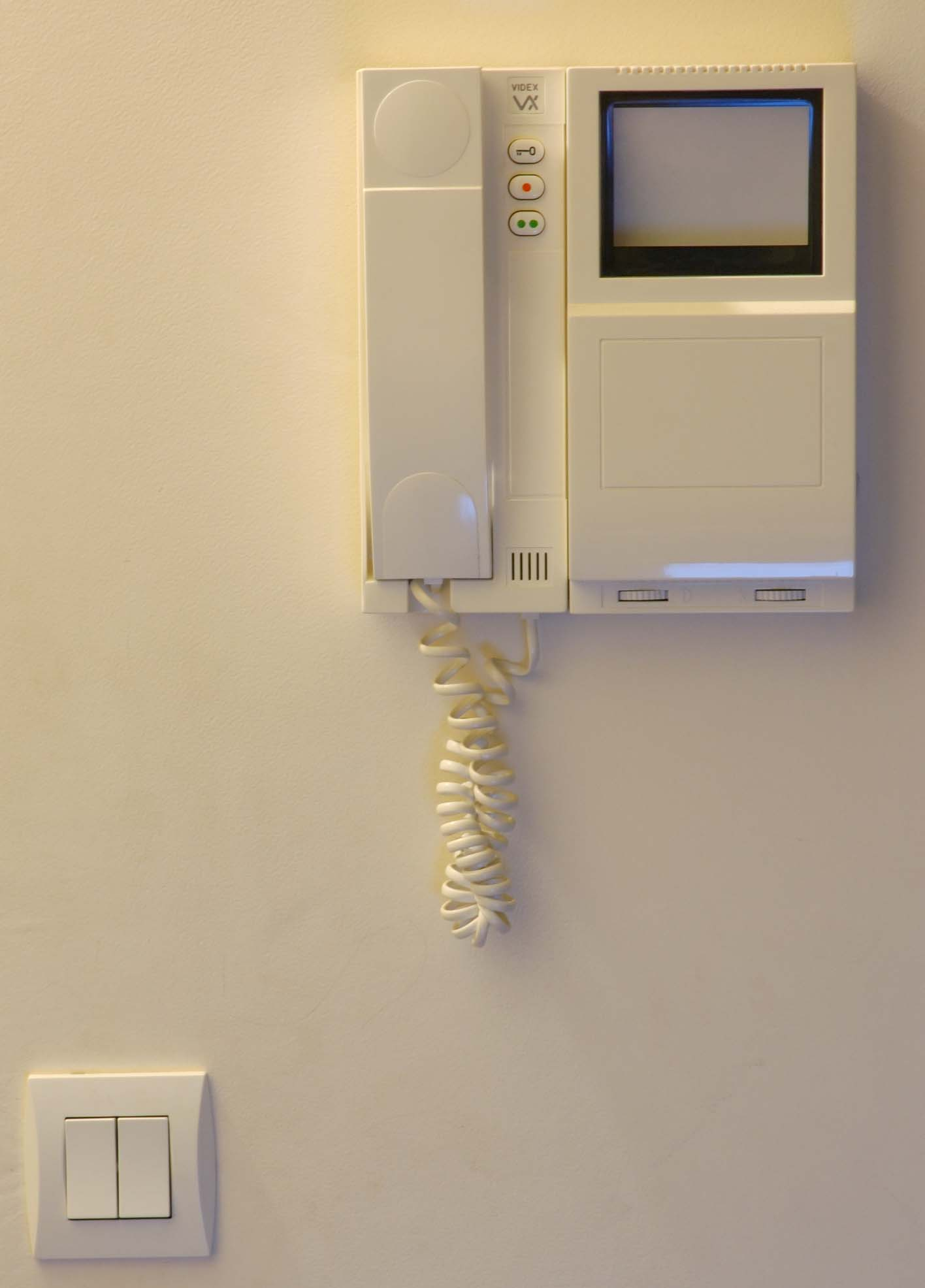 interphone